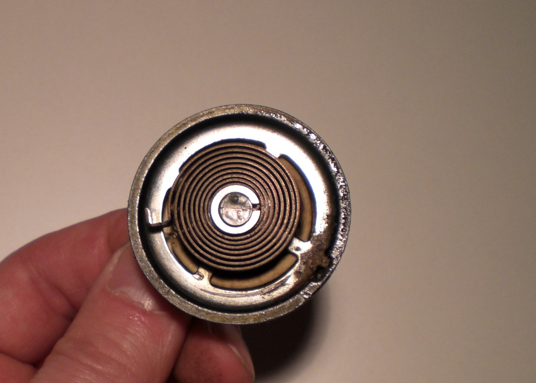 bi-metal spring for automatic choke